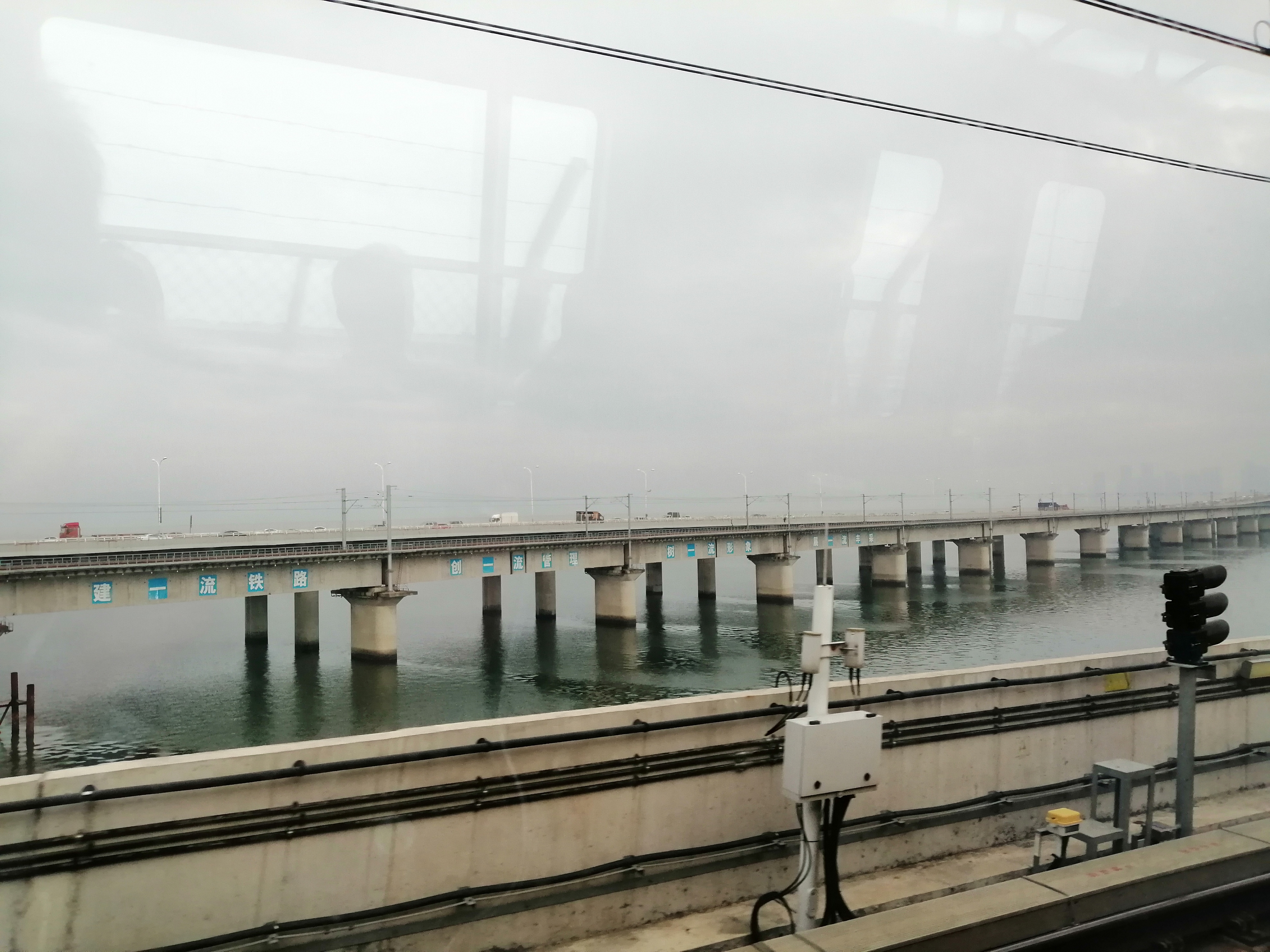 Xinglin Bridge, which taken from the train of Line 1's view. 中文（中国大陆）: 从厦门地铁1号线列车的角度看杏林大桥